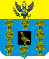 Герб уездного города Бобринец и Бобринецкого уезда, Херсонской губернии